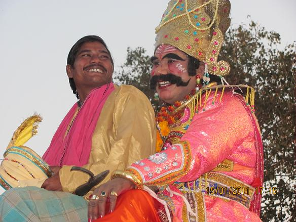 Kansa1